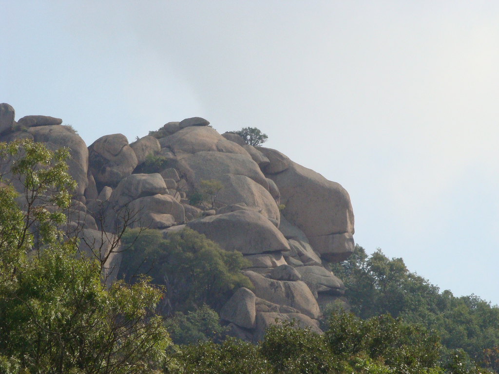 lion's head